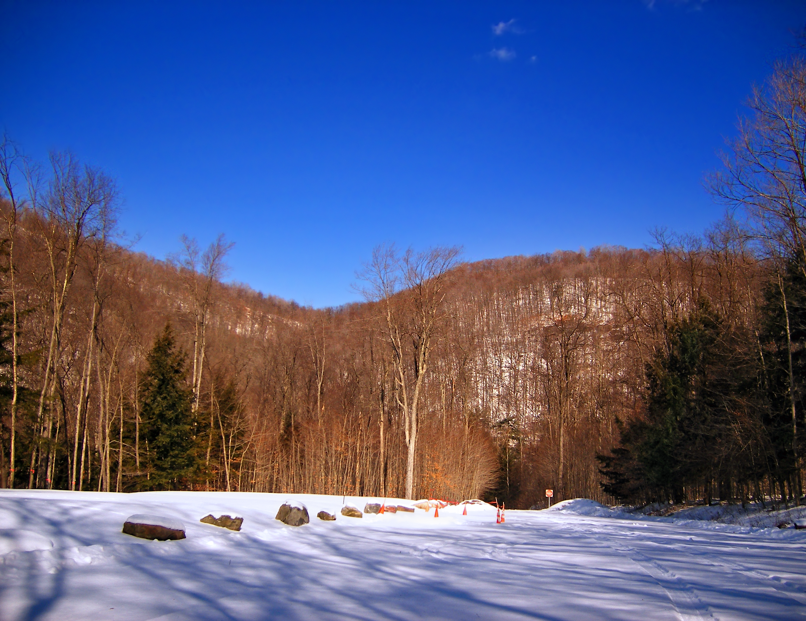 Late-day light, Loyalsock State Forest, Sullivan County. I plan to return here, as well as to neighboring World's End State Park, in the spring or summer for good-quality shots of the stunning Appalachian Plateau landscape (including Canyon Vista ) for which this area is noted. The few landscape shots I managed to get on this particular trip were less than pleasing; fiercely high winds that day made using a tripod impossible.